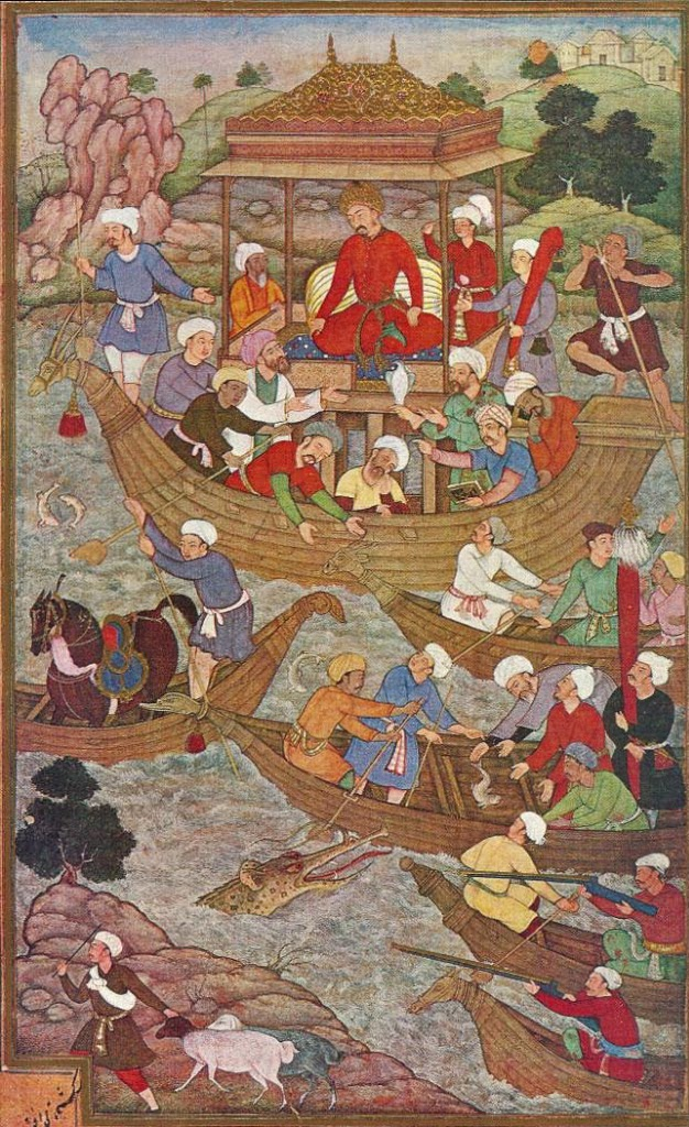 The "Memoirs of Babur" or Baburnama are the work of the great-great-great-grandson of Timur (Tamerlane), Zahiruddin Muhammad Babur (1483-1530). The Baburnama tells the tale of the prince's struggle first to assert and defend his claim to the throne of Samarkand and the region of the Fergana Valley. After being driven out of Samarkand in 1501 by the Uzbek Shaibanids, he ultimately sought greener pastures, first in Kabul and then in northern India, where his descendants were the Moghul (Mughal) dynasty ruling in Delhi until 1858. The miniatures are from an illustrated copy of the Baburnama prepared for the author's grandson, the Mughal Emperor Akbar. It is worth remembering that the miniatures reflect the culture of the court at Delhi; hence, for example, the architecture of Central Asian cities resembles the architecture of Mughal India. Nonetheless, these illustrations are important as evidence of the tradition of exquisite miniature painting which developed at the court of Timur and his successors. Timurid miniatures are among the greatest artistic achievements of the Islamic world in the fifteenth and sixteenth centuries. Illustrations of Mughals from the Baburnama